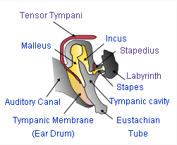 Mammalian middle ear. Notes: the "text" is part of the image, so internationalization will need some work (not by me!); it needs an Extension:ImageMap to make the blue text act as links.